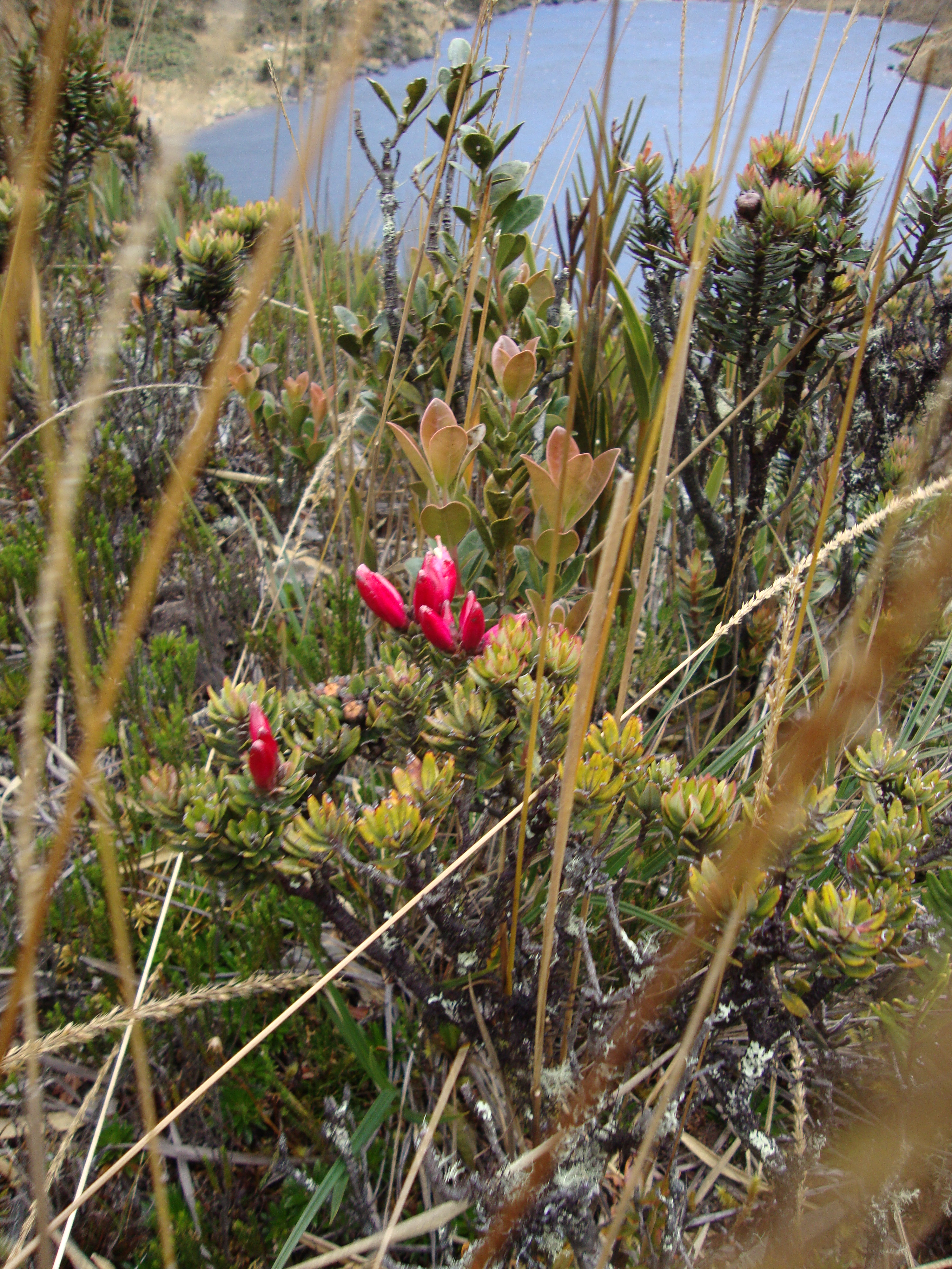 Photo of tiny brush plants at Yacuri national Park with Laguna Negra in the background. Becca Gillespie